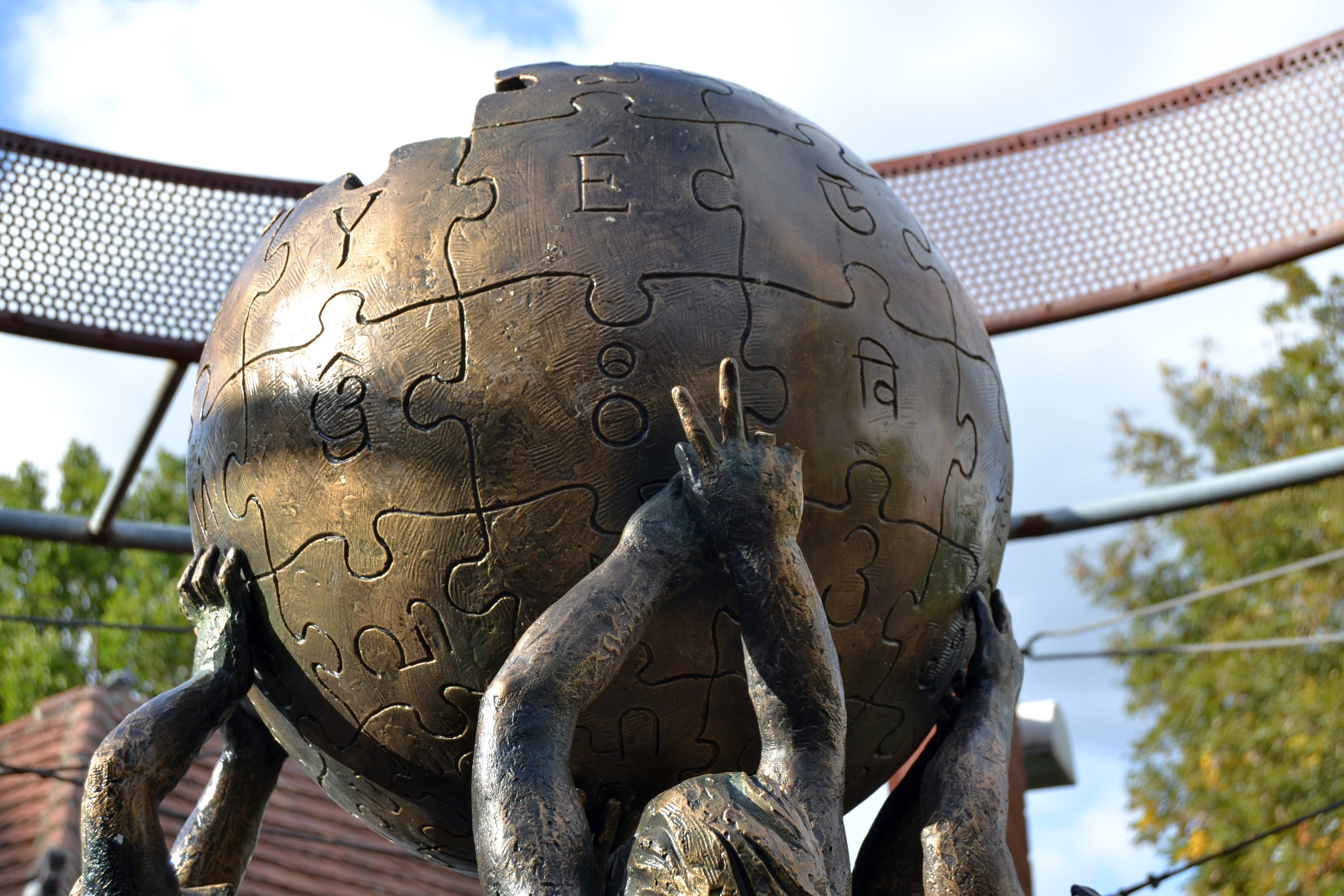 Wikipedia Monument in Słubice,18 September 2019, visible vandalism